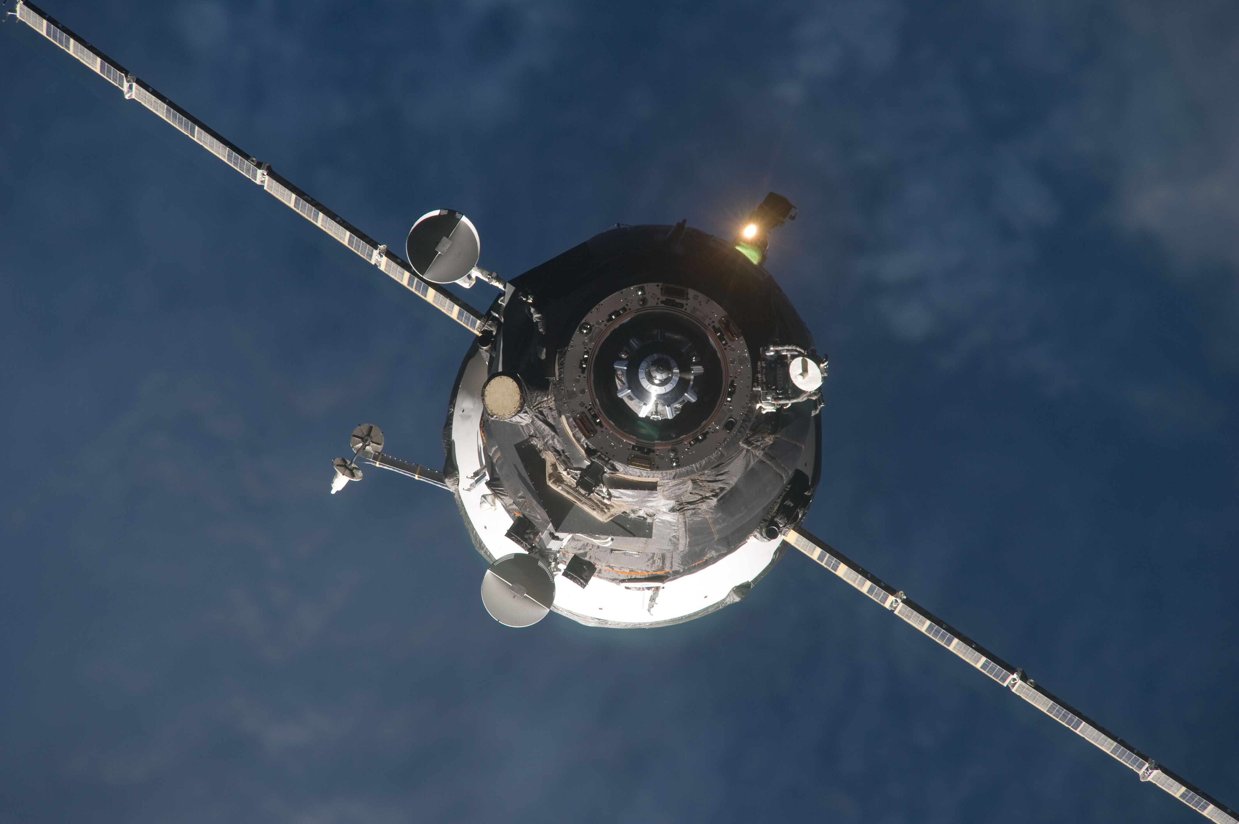 An unpiloted ISS Progress resupply vehicle approaches the International Space Station, bringing 1,918 pounds of propellant, 110 pounds of oxygen, 926 pounds of water and 3,080 pounds of spare parts and supplies for the Expedition 26 crew members. Progress 41 docked to the station's Pirs Docking Compartment at 9:39 p.m. (EST) on Jan. 29, 2011.